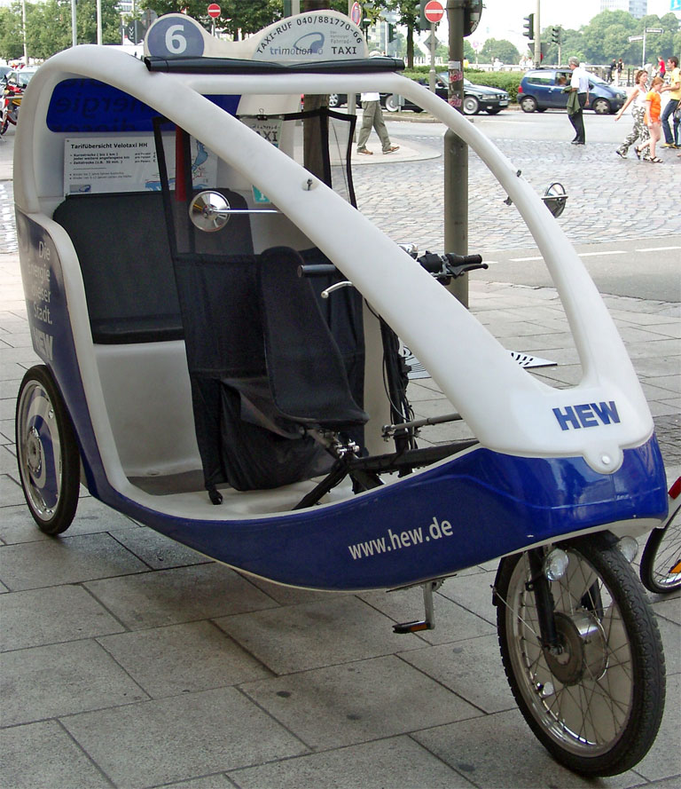 City Cruiser in Hamburg, Germany.